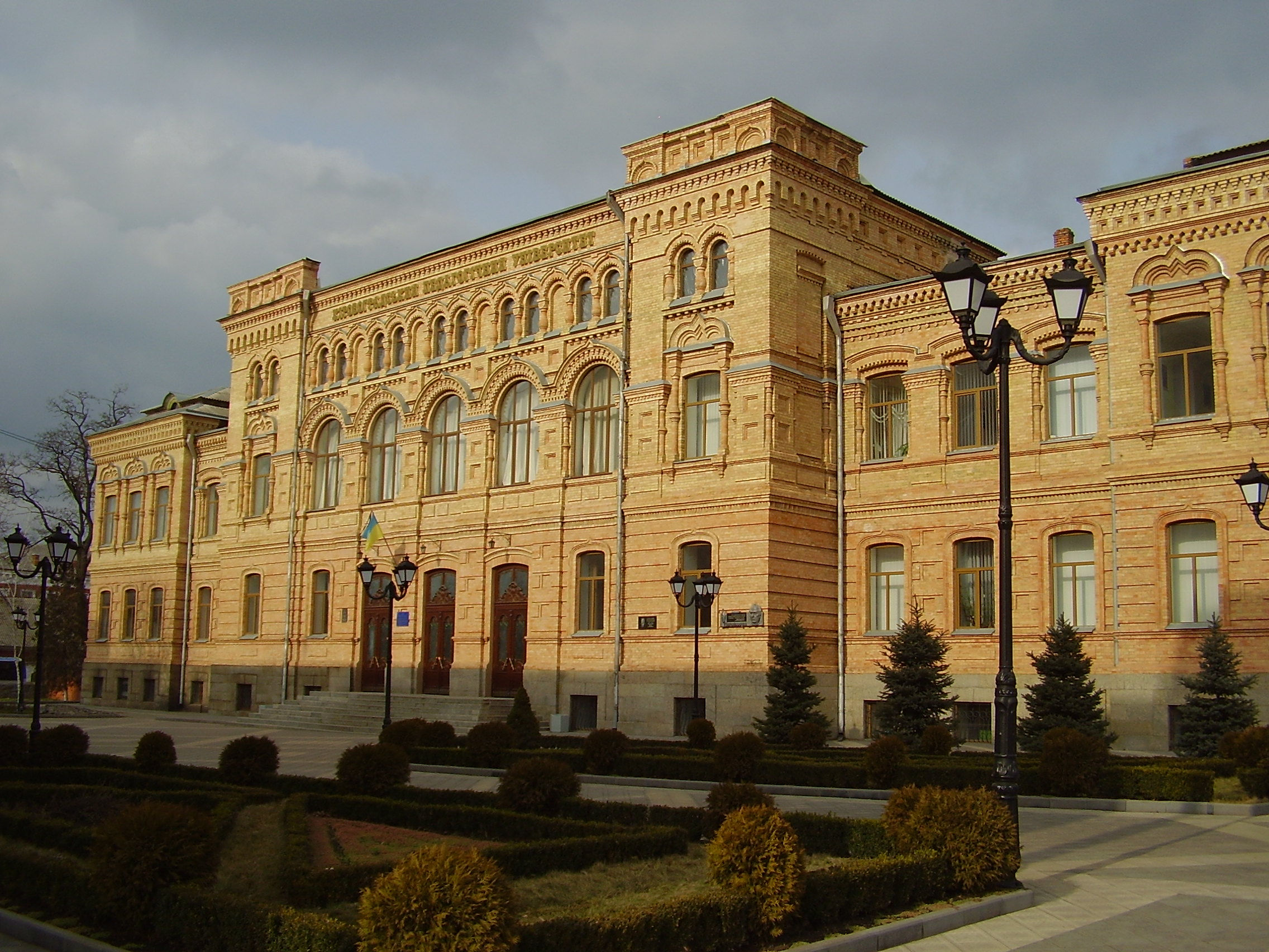 Women's Gymnasium (now the main building The Kirovohrad Pedagogical University), Kirovohrad